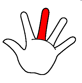 Black and white outline of left hand